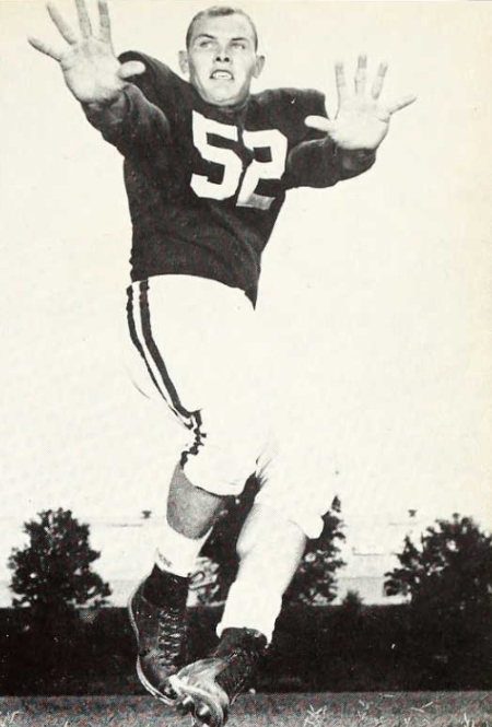 Photograph of Mississippi State College athlete Hal Easterwood